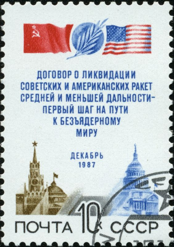 A USSR stamp, Soviet-American Intermediate and Short-range Nuclear Weapons Treaty. Date of issue: 17th December 1987. Designer: Yury Artsimenev Michel catalogue number: 5779. 10 K. multicoloured. Flags of USSR and USA, Spasskaya Tower (Kremlin, Moscow) and Capitol (Washington).